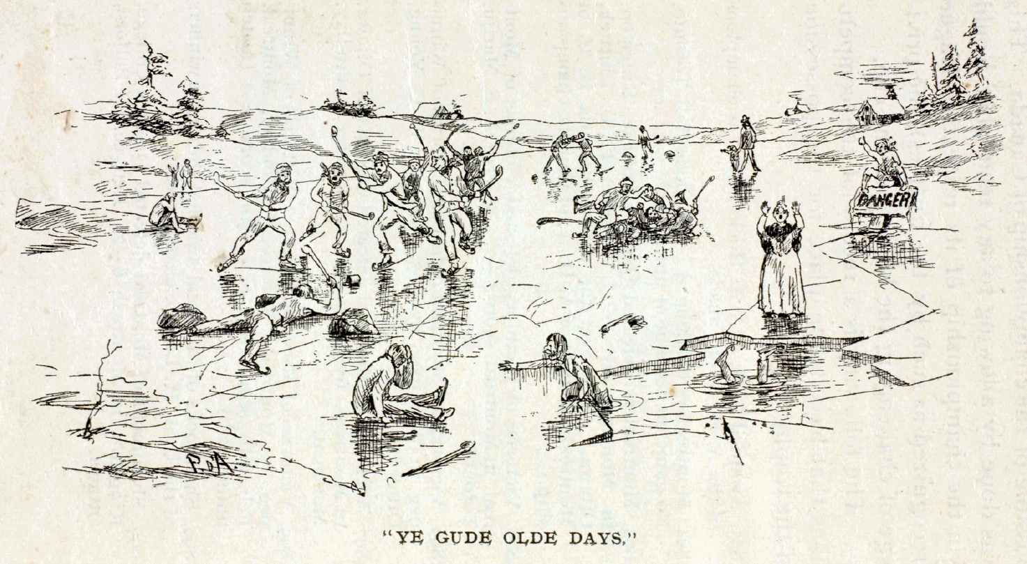 Gude olde days of hockey